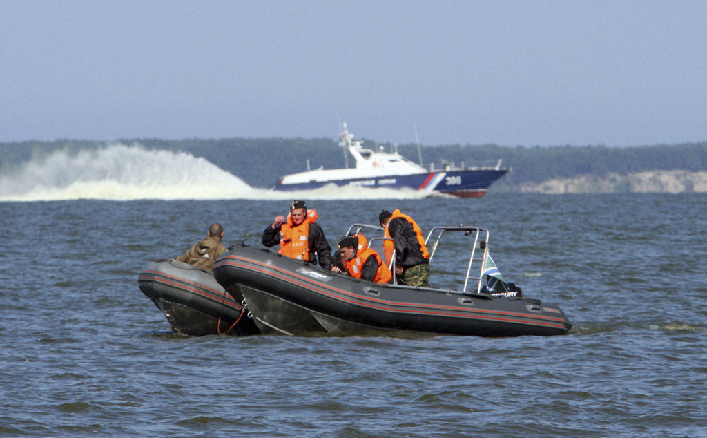 “Border guards of the Federal Security Service pursuing trespassers of the maritime boundary during exercises in Kaliningrad region”. Military drill near Mamonovo border-crossing point in Kaliningrad region. Border guards of the Federal Security Service arresting a boat with fictitious trespassers of the the maritime boundary. Background: coast guard motorboat.